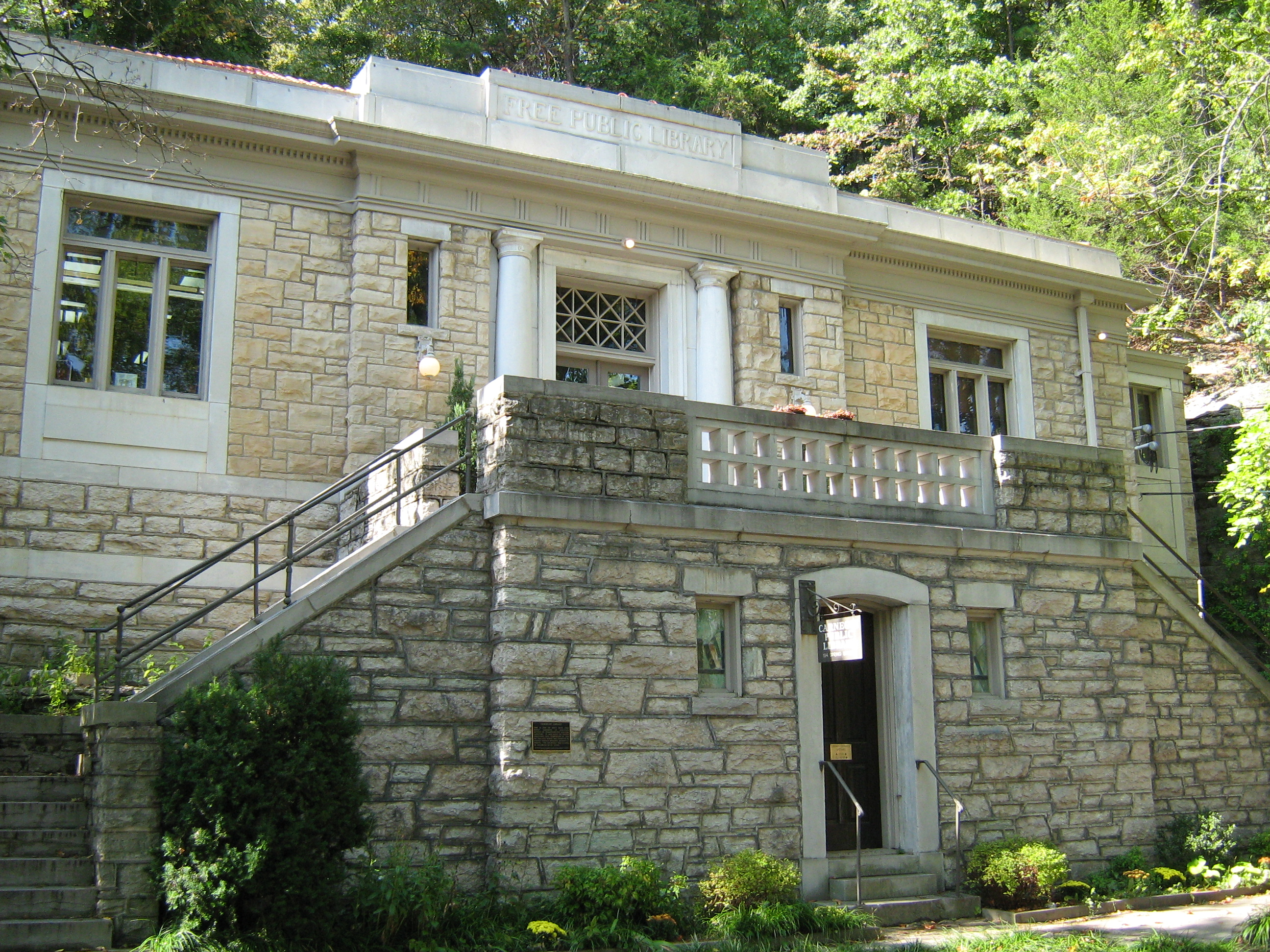 Public Library in Eureka Springs, Arkansas 72632 U.S.A. Originally funded by philanthropist Andrew Carnegie, the building was completed in 1912.